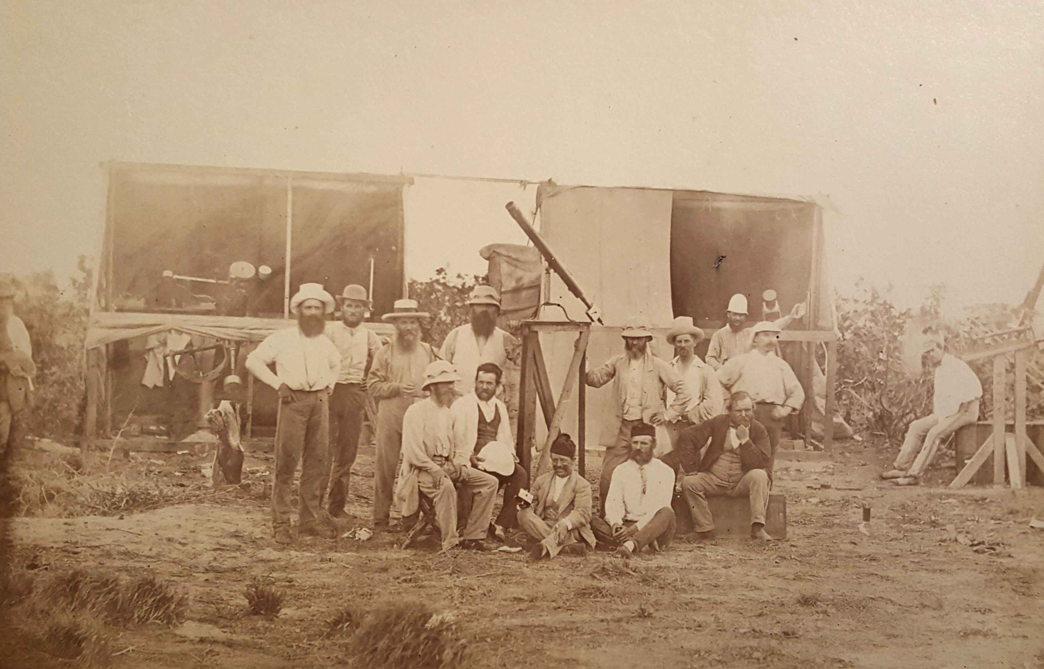 Astronomers, Australian Eclipse Expedition, 1871 by Beaufoy Merli, State Library of New South Wales SPF 1332